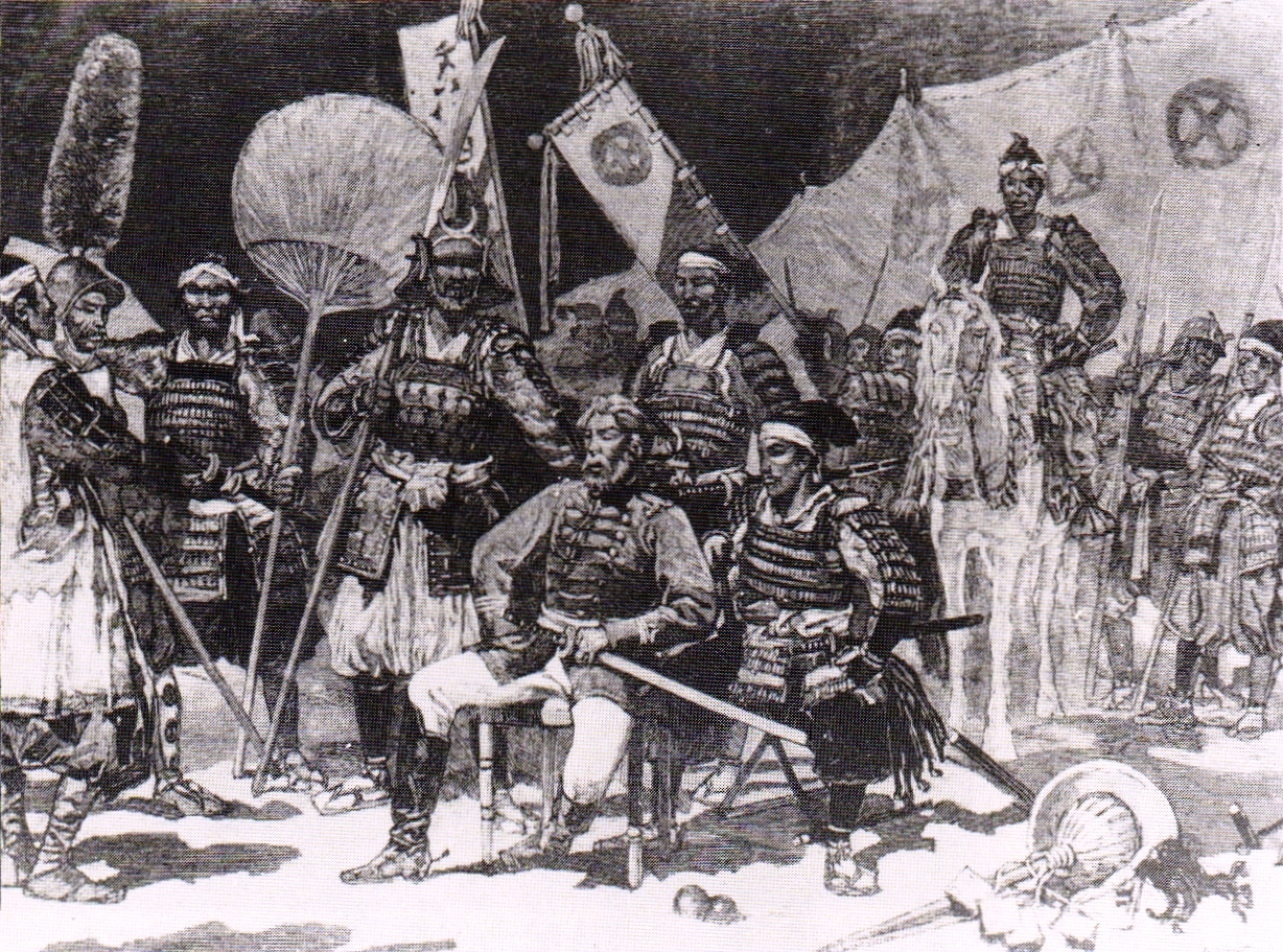 Saigō Takamori with his officers, at the Satsuma Rebellion.